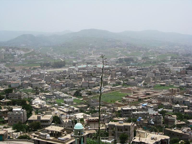 An overview of Ibb city, Yemen